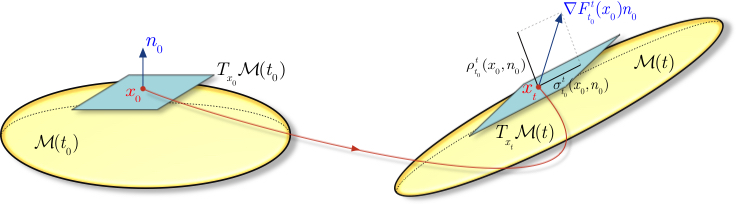 Local linearized flow geometry near a material surface